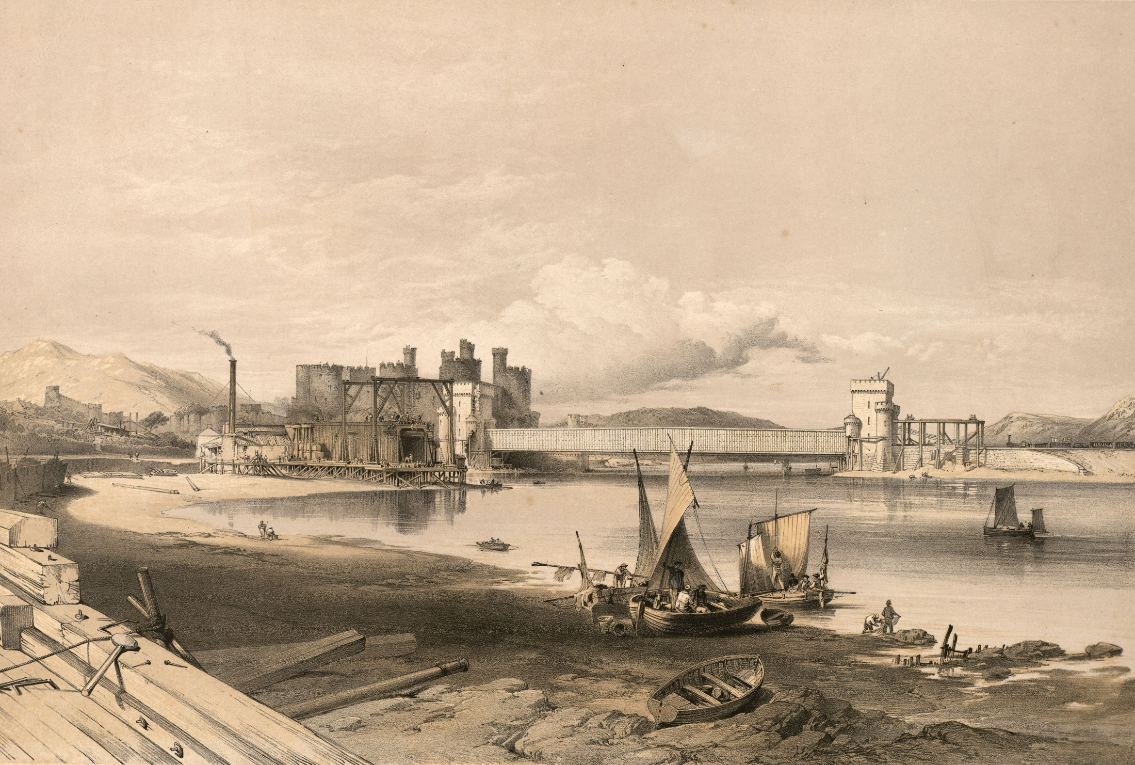 Framework for tube, fishermen, castle, steam train.